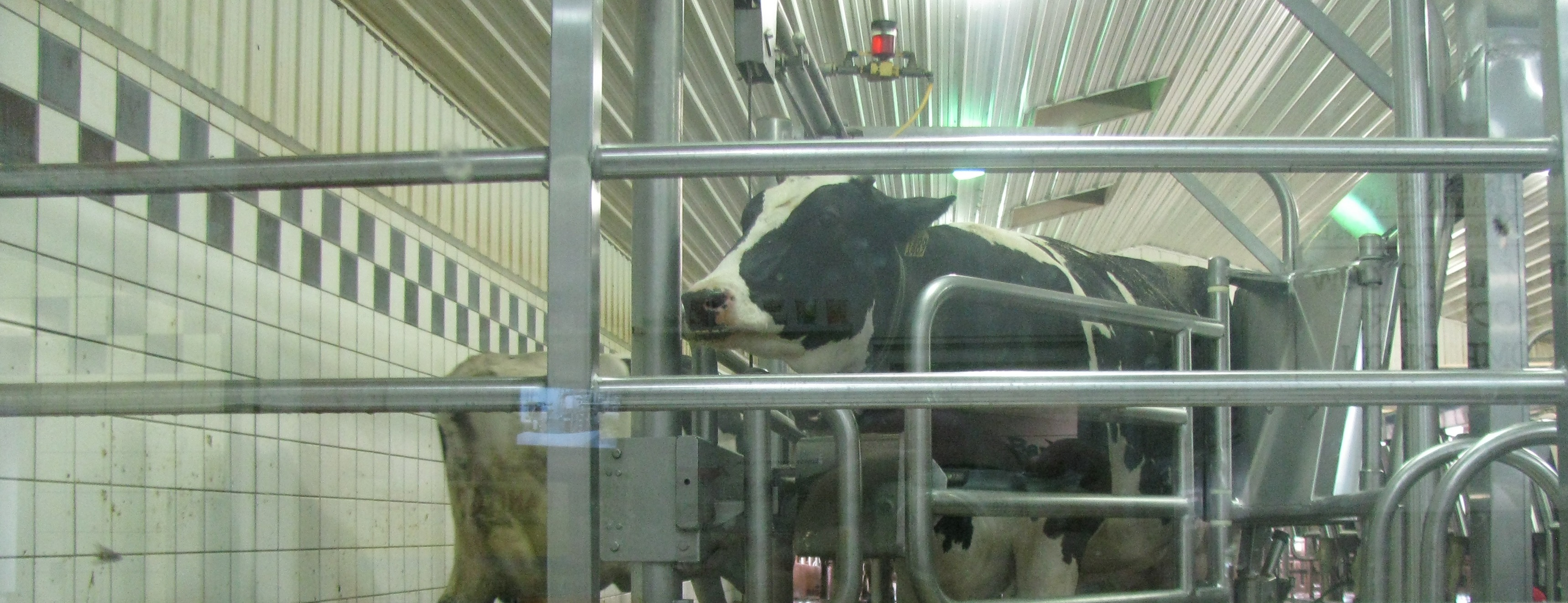 Milking parlor at Schopf's Hilltop Dairy in the Town of Sevastopol, Door County, Wisconsin on August 8, 2012